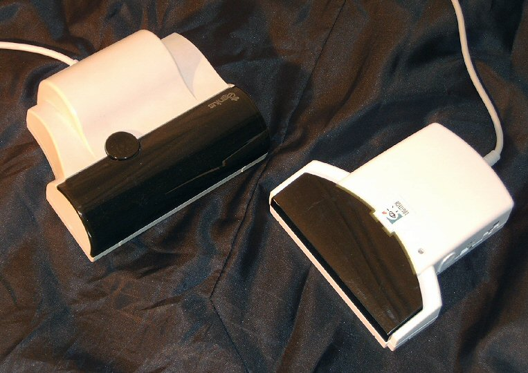 The picture shows two hand scanners: left: Genius C105 Pro (TrueColor) right: Logitech Scanman Modell 32 (Graustufen)